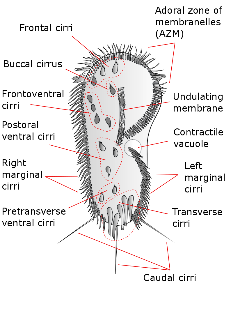 Labeled diagram of the ciliate Stylonychia mytilus, in .png format.